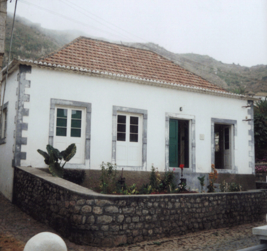 Museum of Eugénio Tavares, Vila Nova de Sintra, Ilha Brava, Cabo Verde.